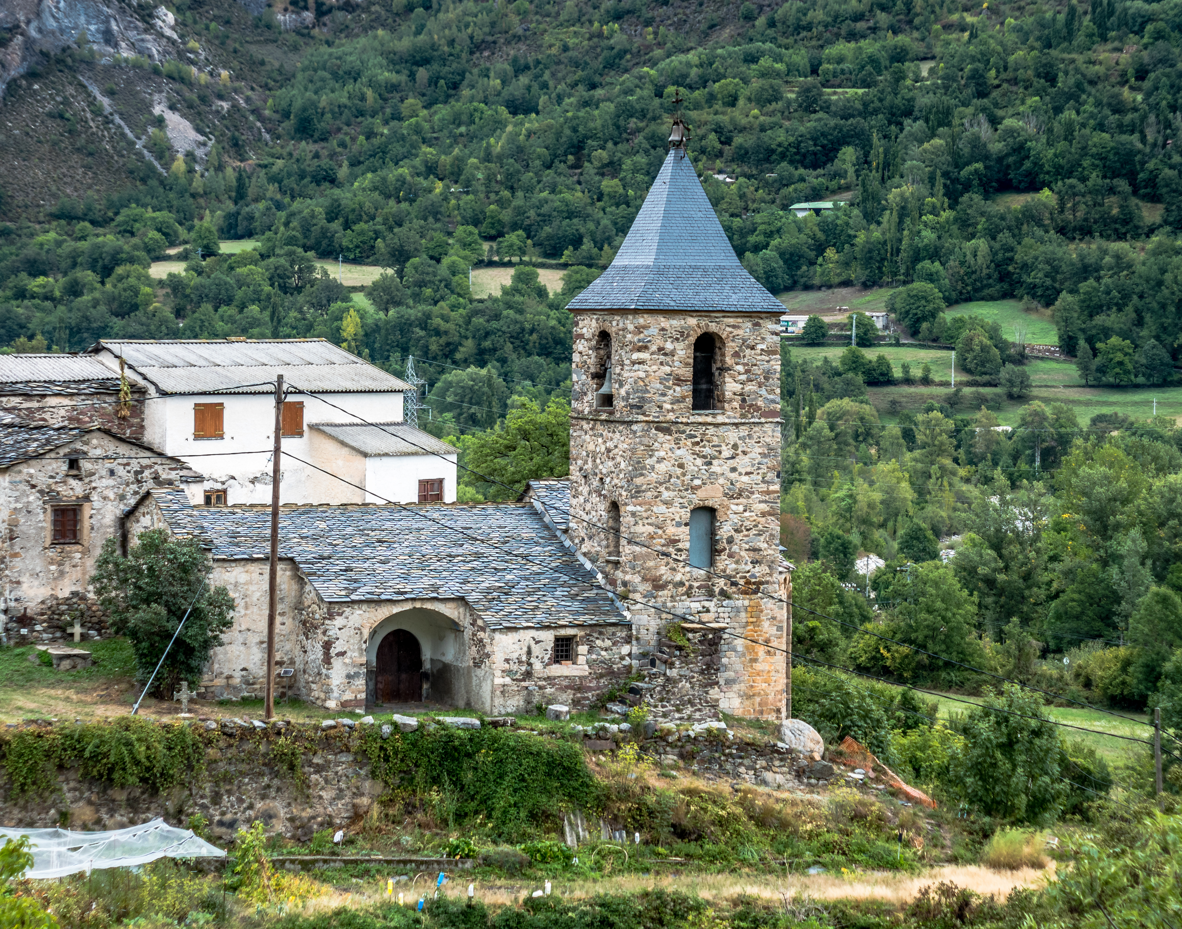 Church of St. Mary in Villanova. Huesca, Aragon, Spain